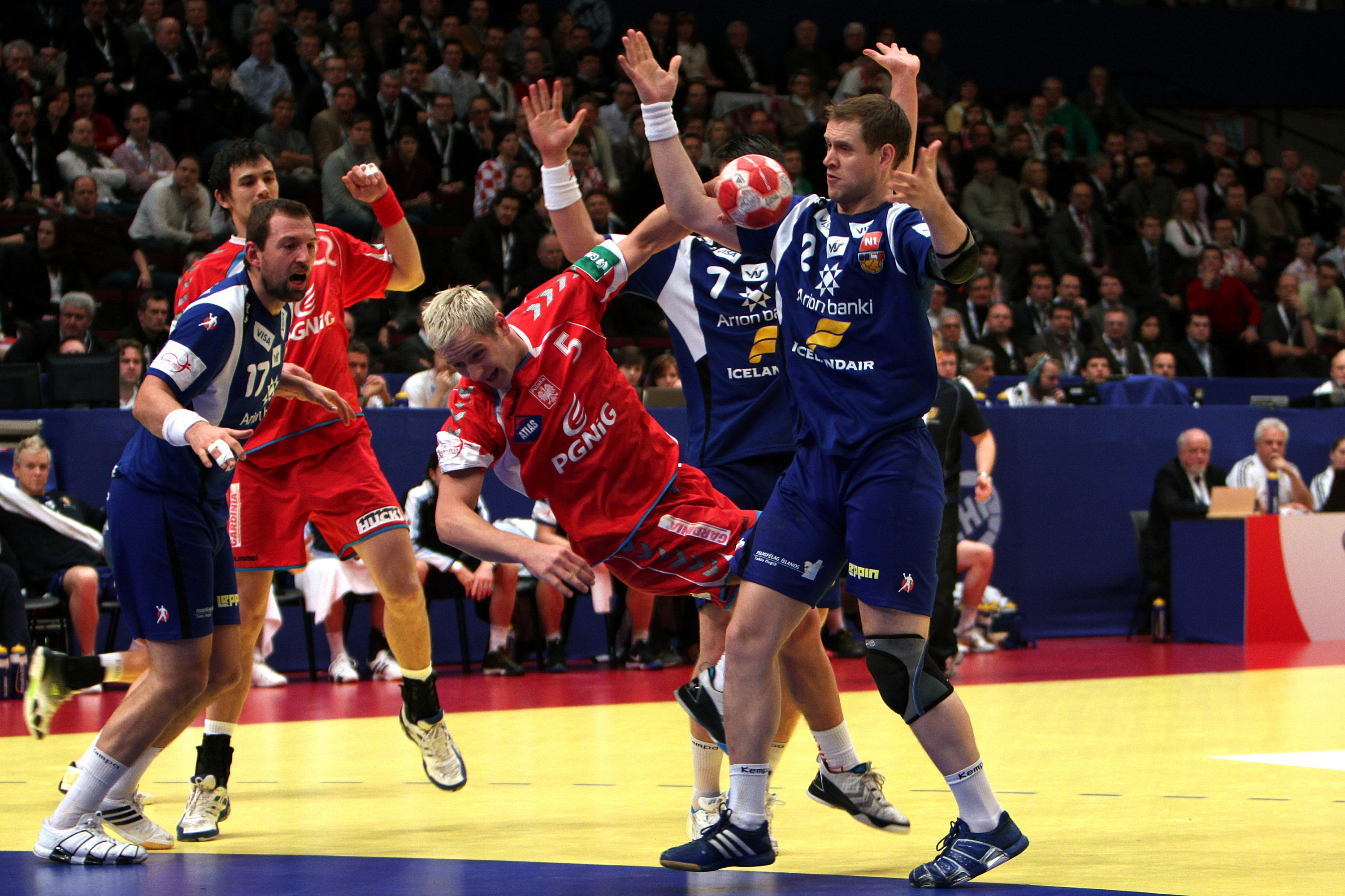 2010 European Men's Handball Championship Semifinal #1: Poland vs Iceland 26:29 — Mateusz Jachlewski (France national handball team) is blocked by Vignir Svavarsson (Iceland national handball team). On the left side Sverre Andreas Jakobsson and Marcin Lijewski.